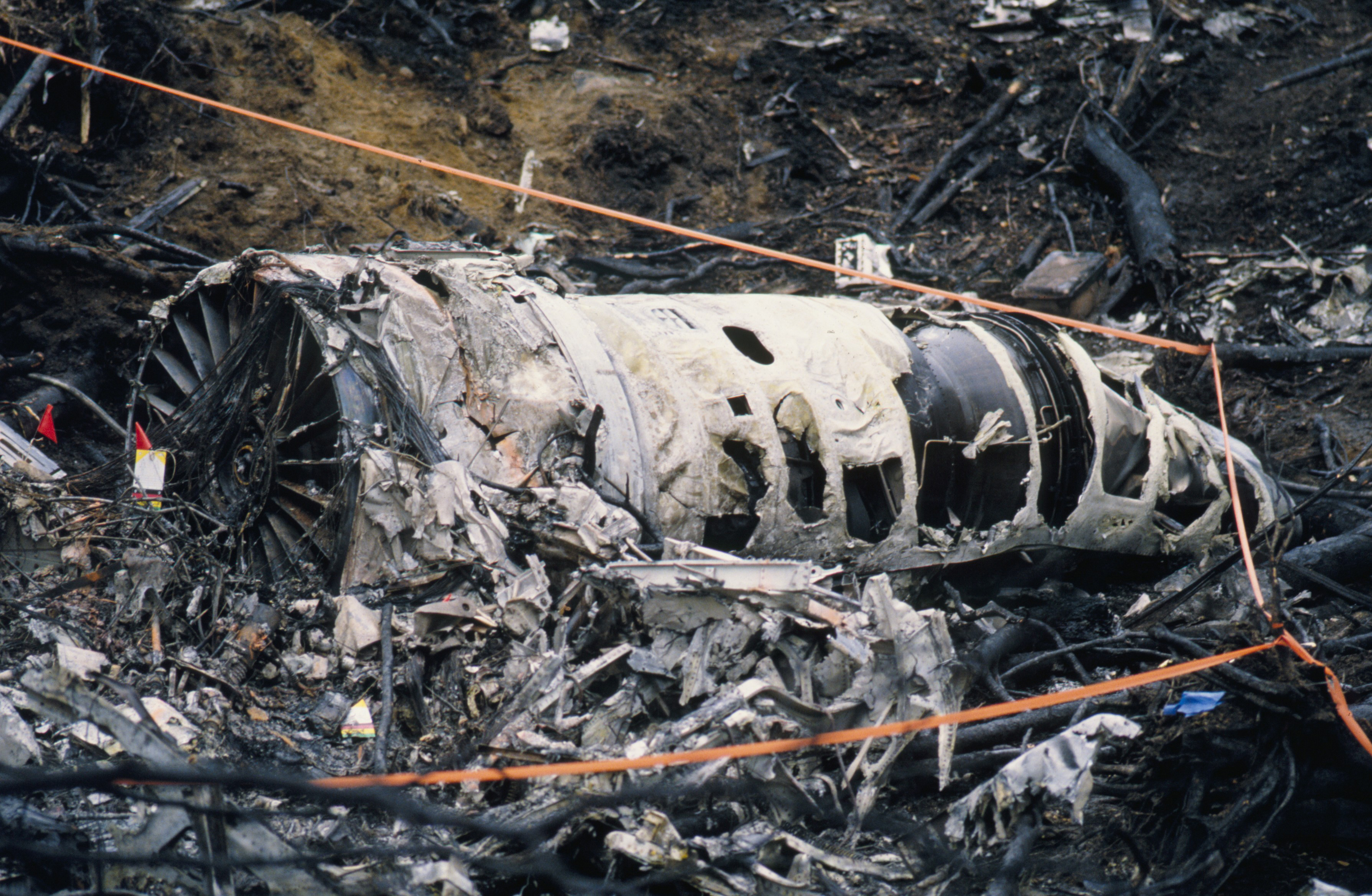 Yukla-27 AWACS crash